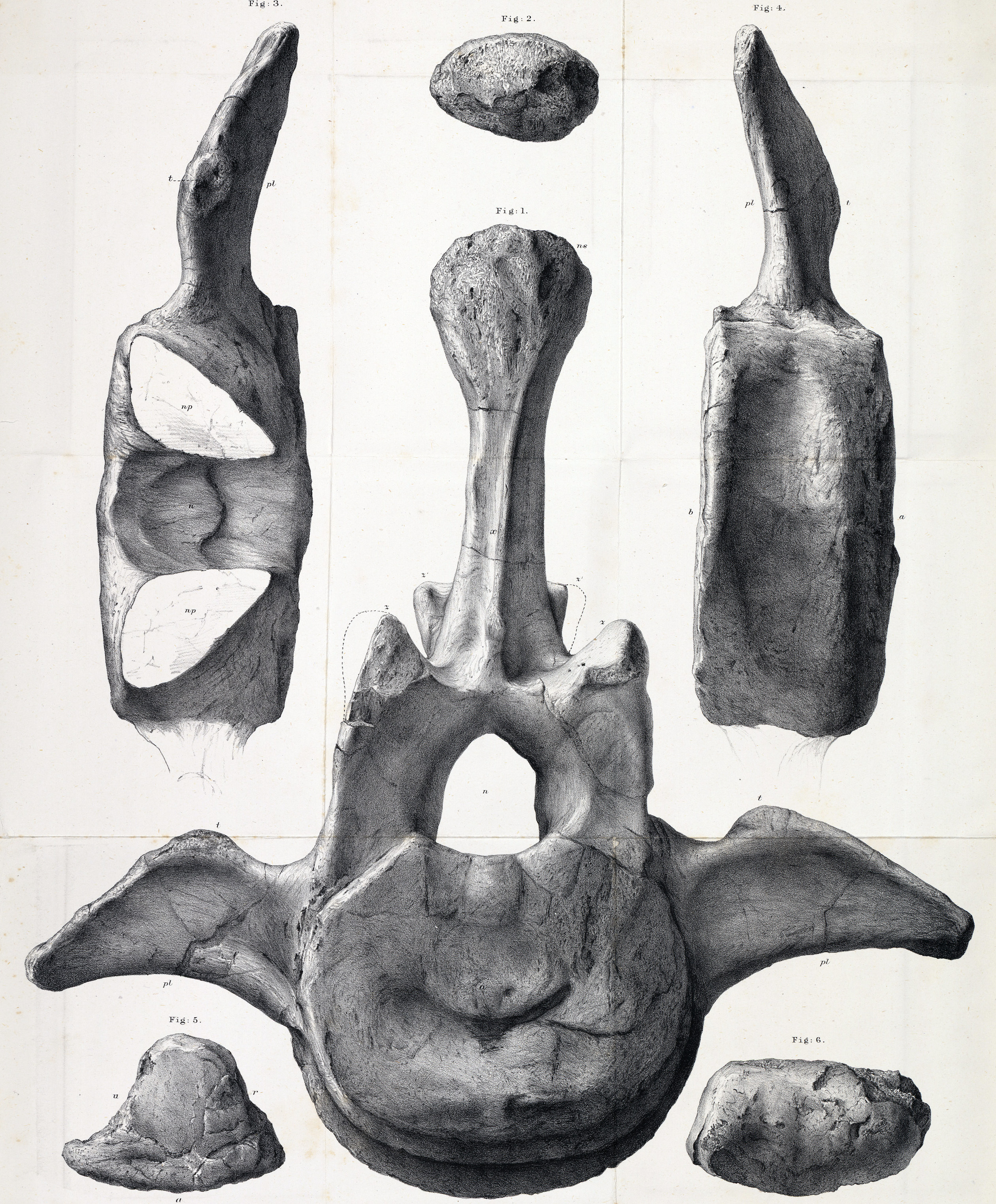 Omosaurus armatus. Fig. 1. Front-view of an anterior caudal vertebra. Fig. 2. Upper-view of end of neural spine. Fig. 3. Upper-view of centrum and right pleurapophysis. Fig. 4. Under-view of the same. Fig. 5. Proximal end of fourth metacarpal. Fig. 6. Distal end of the same. All the figures are of the natural size. From the Kimmeridge Clay of Swindon, Wilts. In the British Museum.